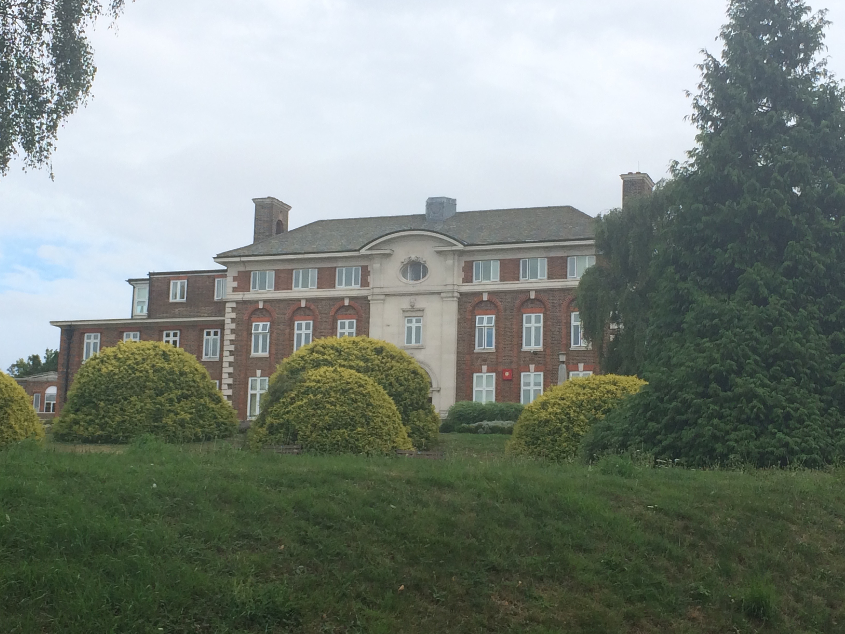 Memorial Hospital from the driveway